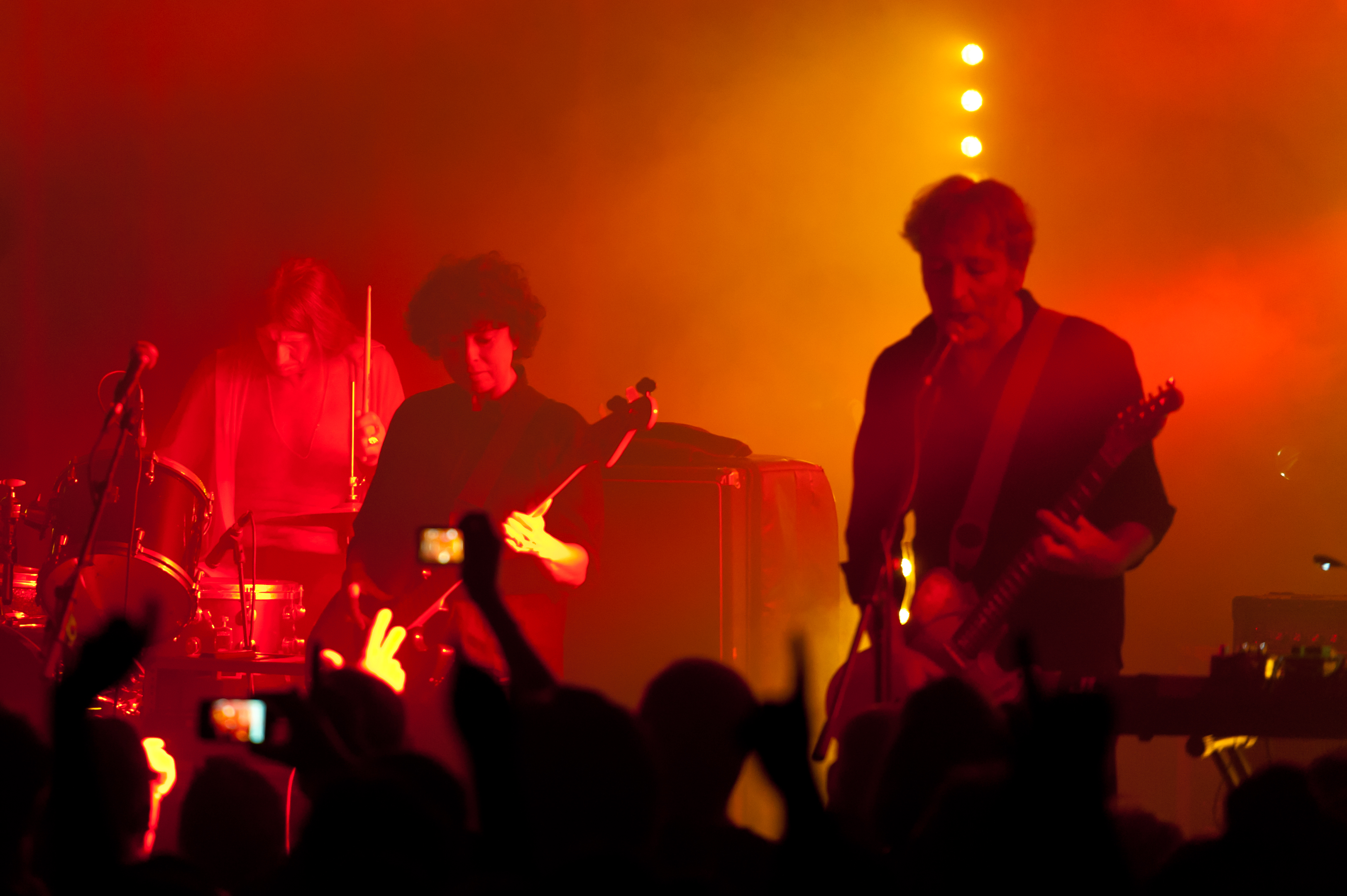 Minimal Compact, 2012 reunion in Tel Aviv